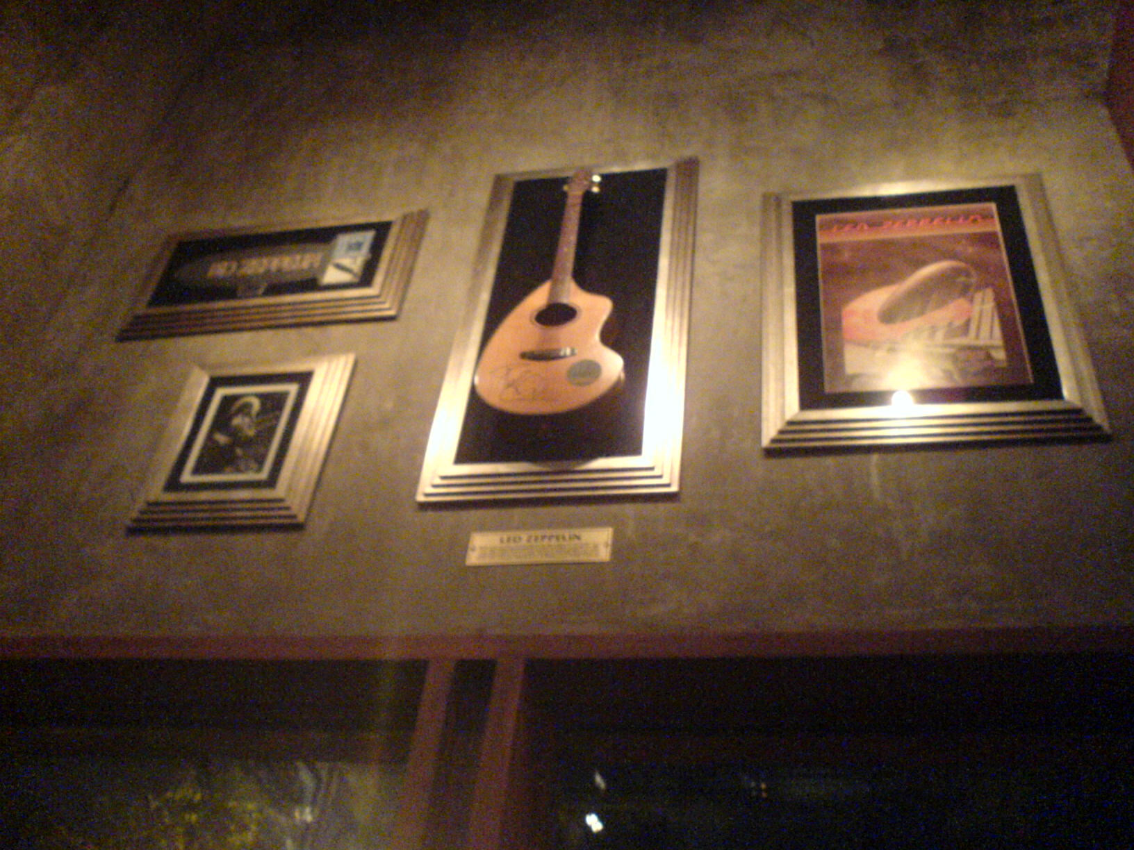 Page n Plant are God!